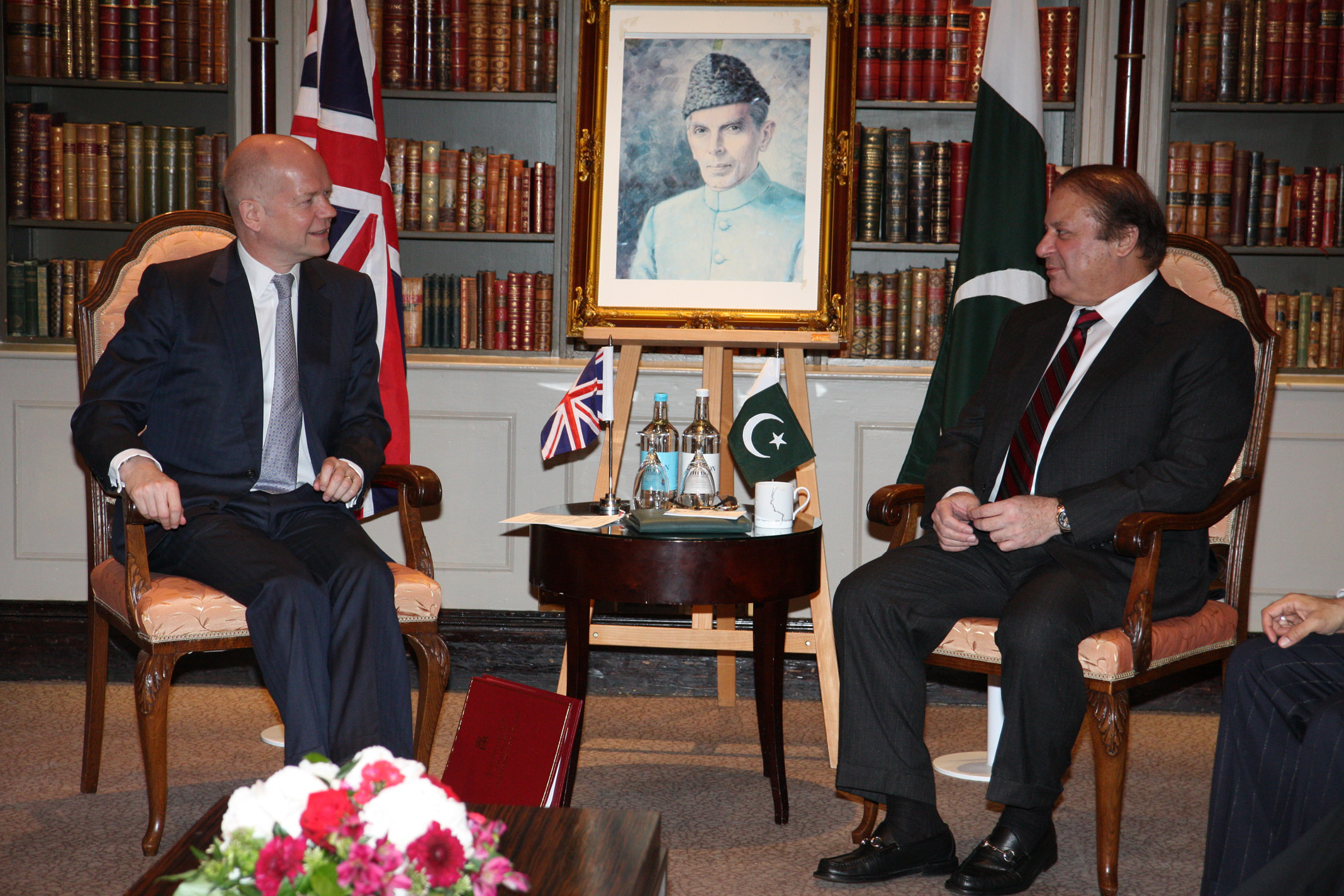 Foreign Secretary William Hague meeting Pakistan Prime Minister Nawaz Sharif in London, 1 May 2014.